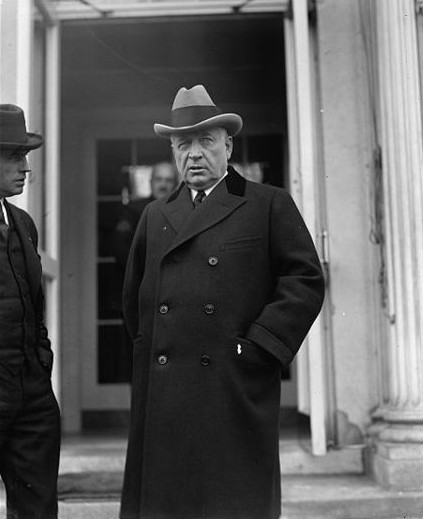 Frank Orren Lowden (1861 - 1943), the Governor of Illinois